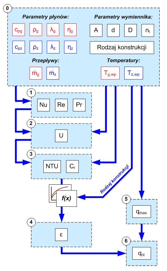 NTU Method - Calculation Algoritm